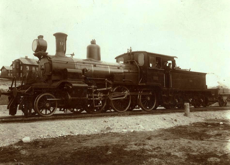 Dampflok NSB 15c 125